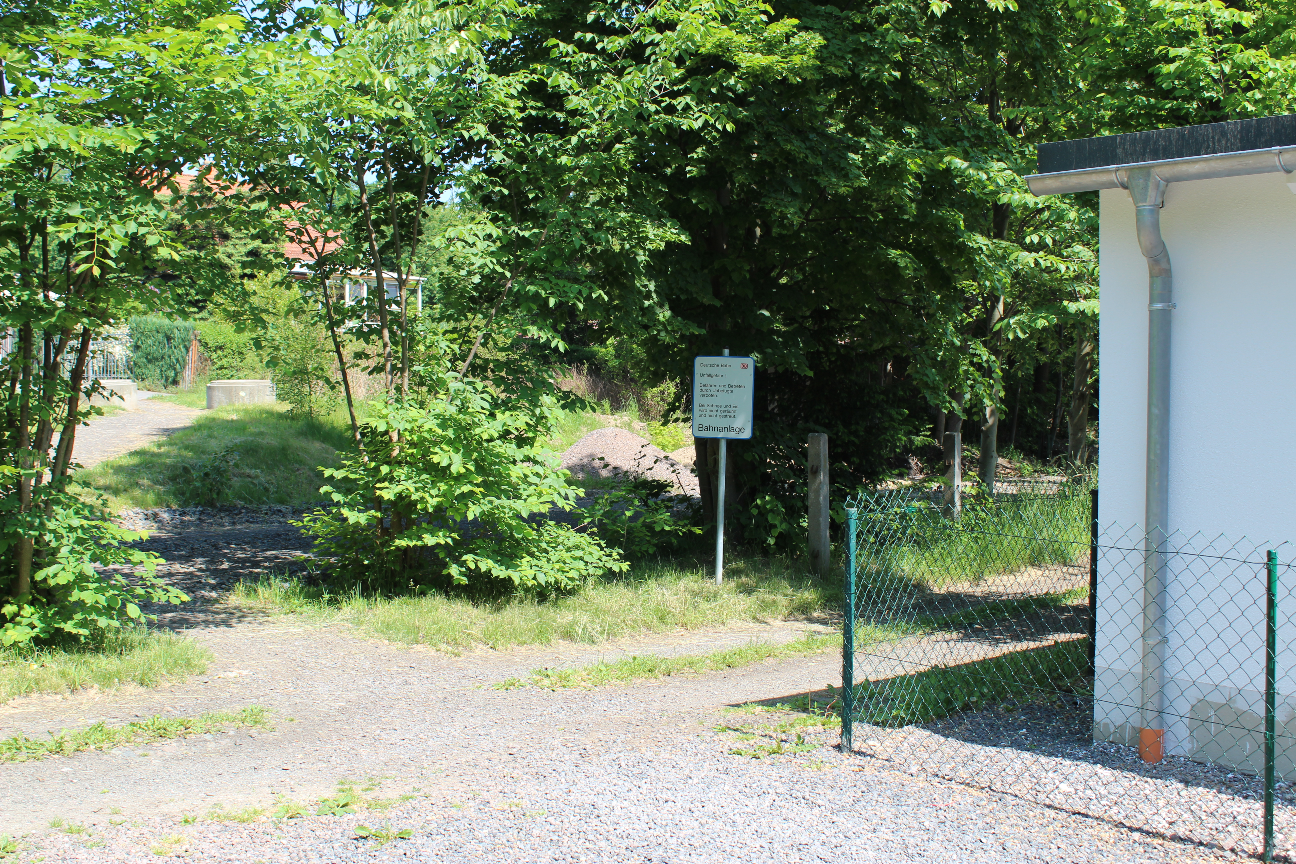 train station Münchenbernsdorf